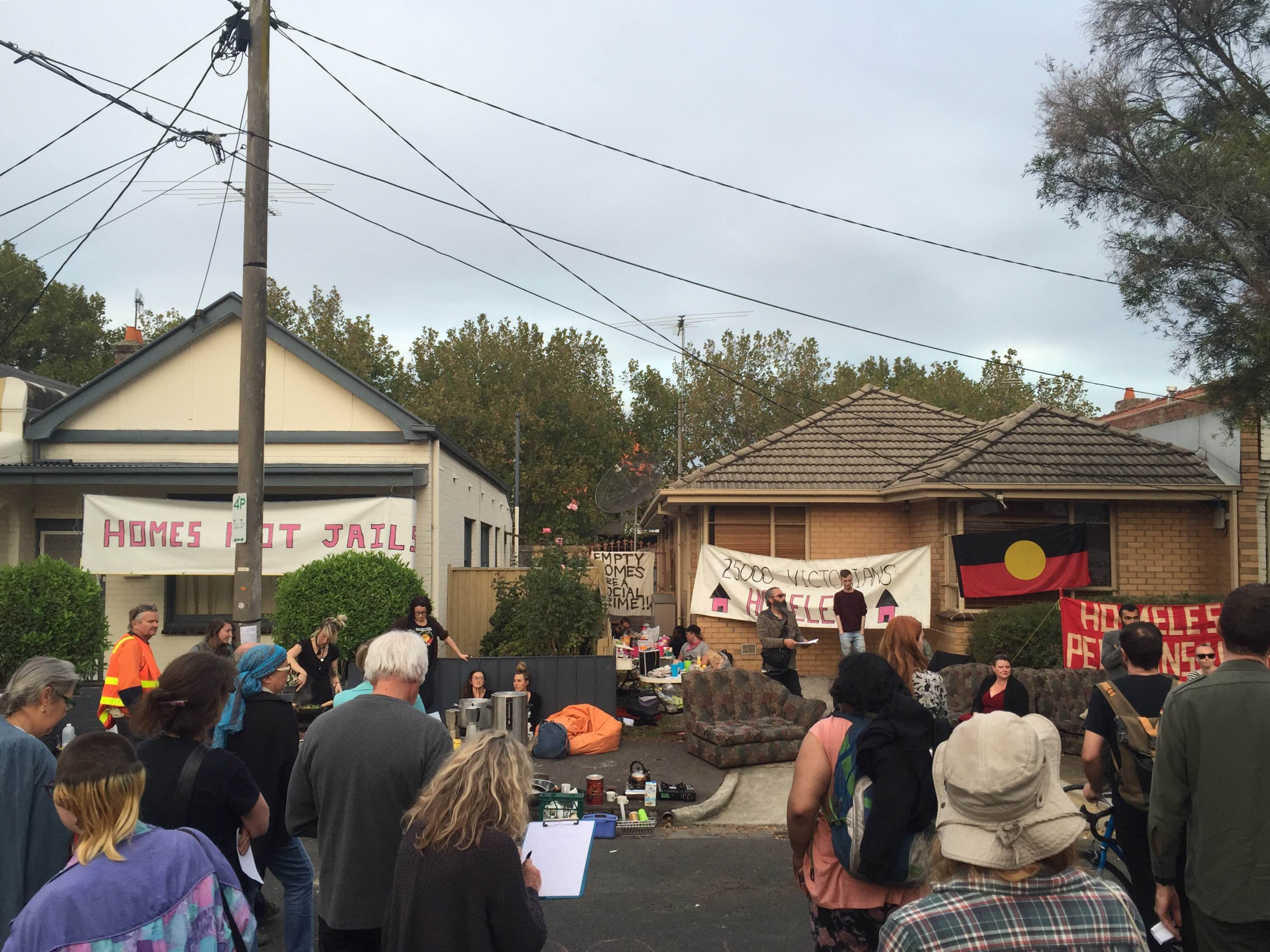 Number 2 and 4 Bendigo street, Collingwood, Victoria, Australia during the Bendigo street housing campaign